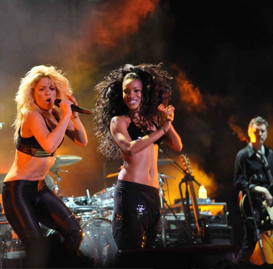 Shakira live at the 2011 Singapore Grand Prix.